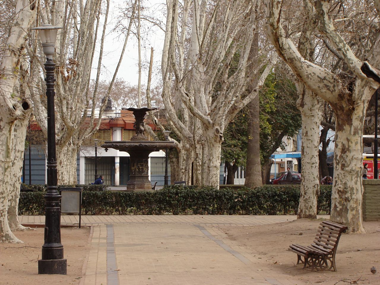 Buratovich Square, Rosario